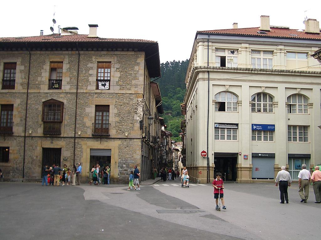 In the main square of the city of Bergara